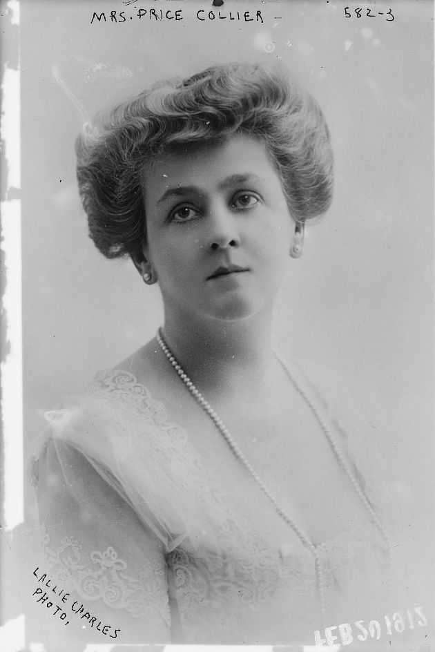 Mrs. Price Collier, portrait bust, Lallie Charles Photo Reproduction Number LC-DIG-ggbain-02766 (digital file from original neg.)